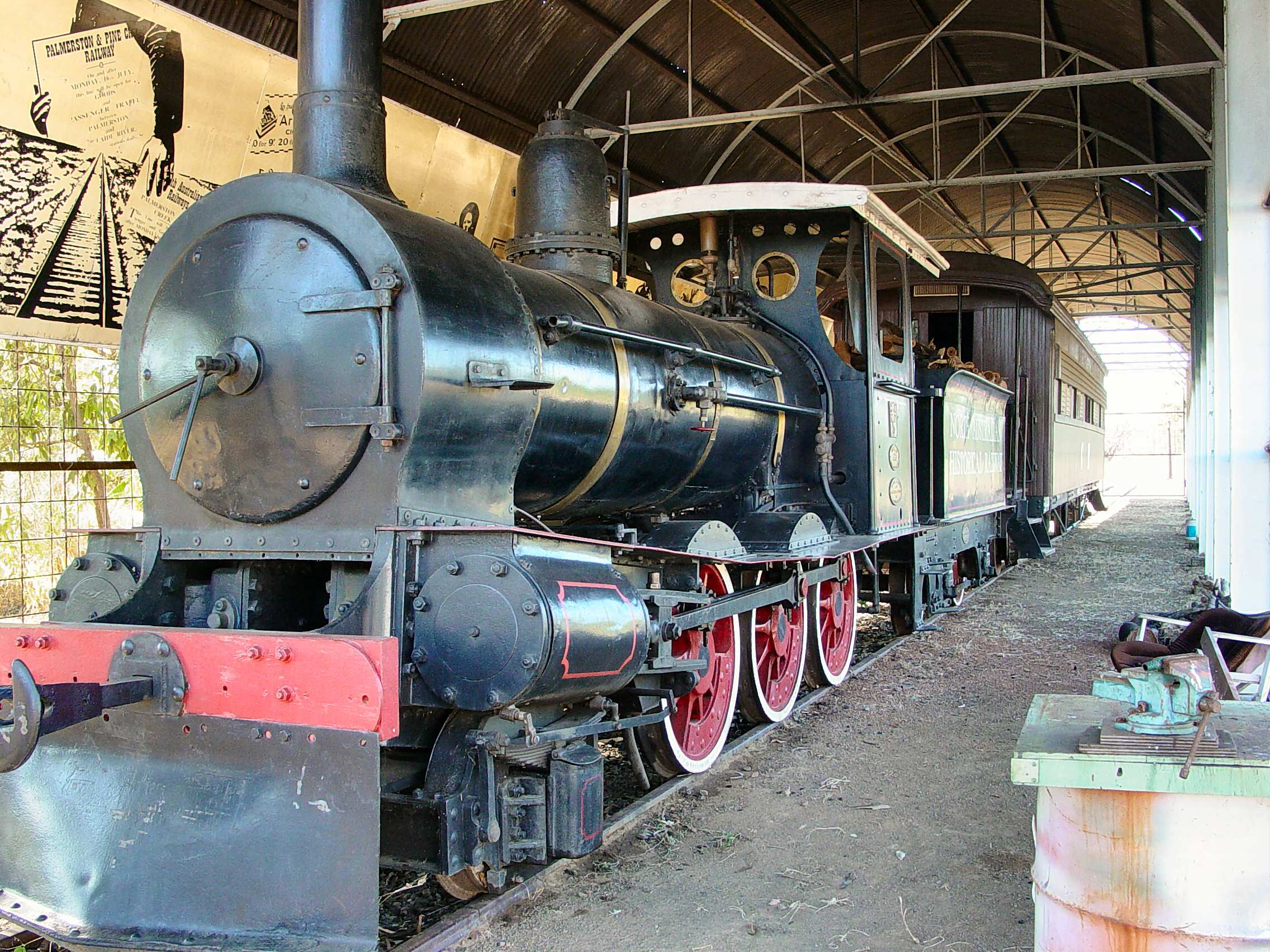 Preserved former North Australia Railway NF class 2-6-0 locomotive displayed at Pine Creek This narrow-gauge locomotive of the North Australia Railway is stated by some railway historians as probably being NF5 – formerly South Australian Railways W class W53, built by Beyer, Peacock and Company (builder number 1717) about 1877. The uncertainty derives from the occasional practice of changing locomotive plates: this locomotive is known to have carried the plates of NF2 (formerly SAR W13 – Beyer, Peacock no. 1715). Sources include .au/cr_locos and W53 was built for the South Australian Railways in 1877–1882 then sold to C. & E. Millar for construction of the Palmerston and Pine Creek Railway (later named the North Australia Railway), where it remained. Photo taken and supplied by Brian Voon Yee Yap.